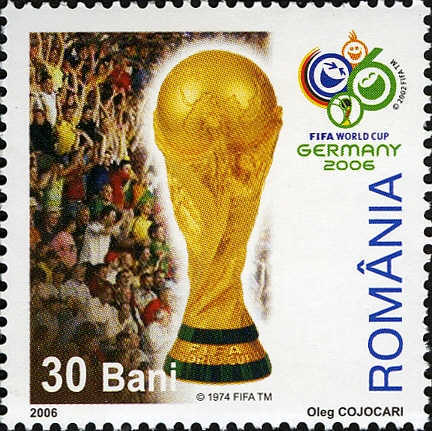 Stamps of Romania, 2006